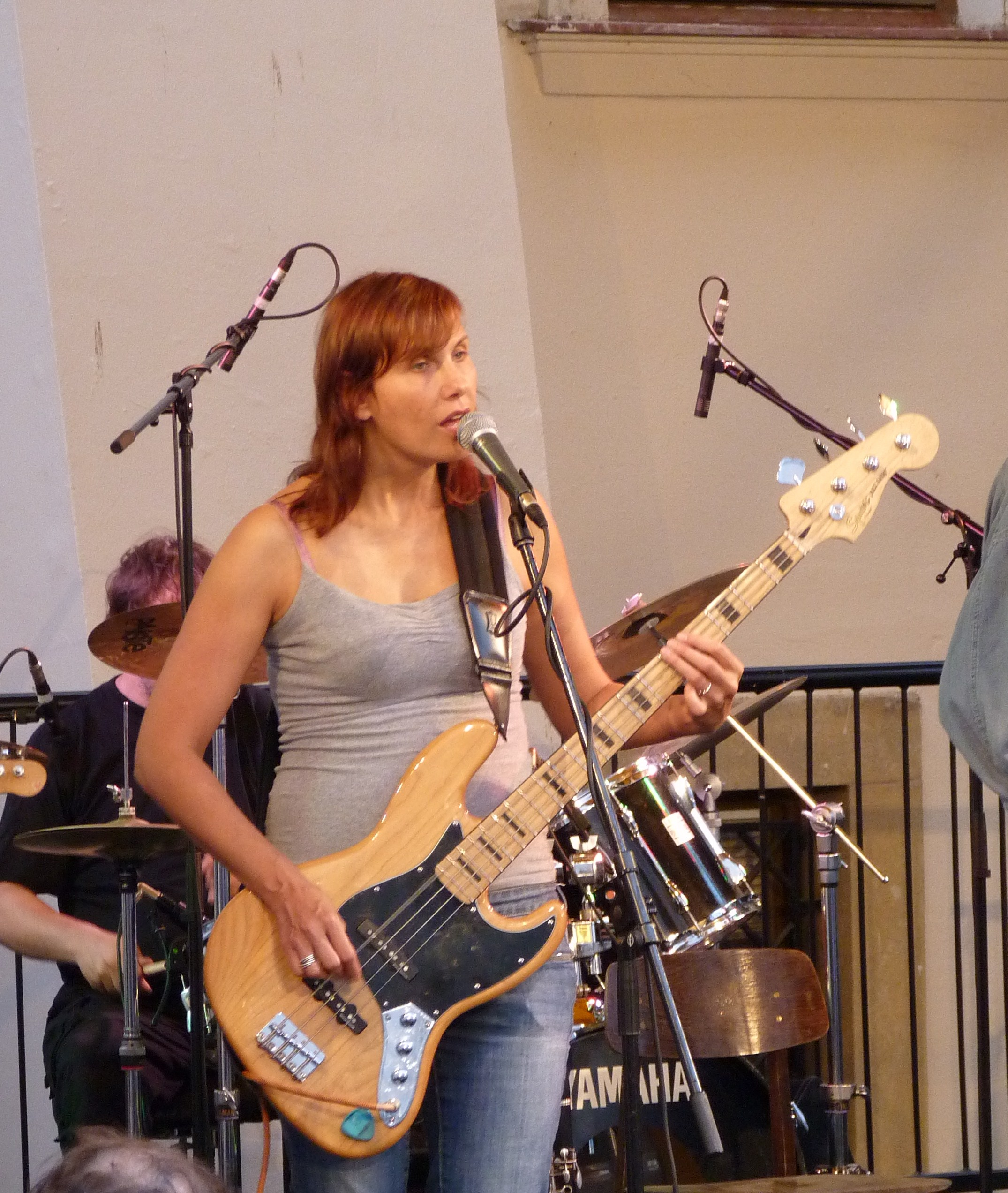 Eva Turnová (Czech musical group The Plastic People of the Universe. Old Town in Brno, 13th June 2010)